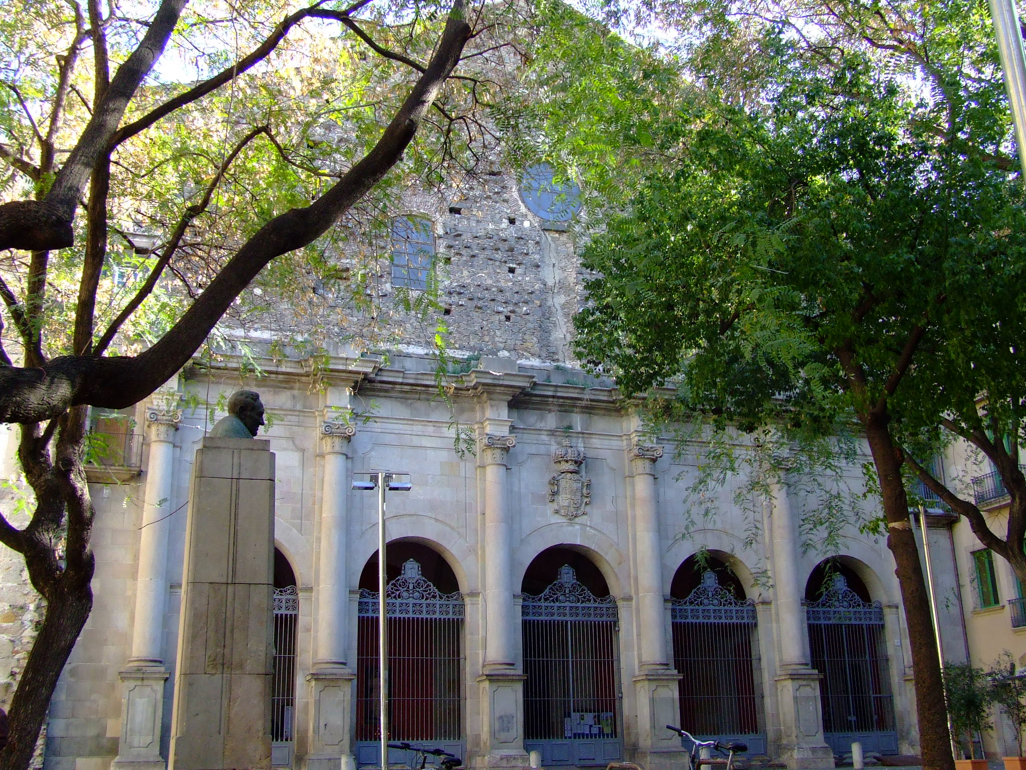 Iglesia de Sant Agustí Barcelona, carrer Hospital. One of the few baroque churches in Barcelona, Spain.